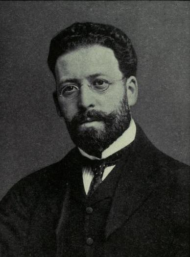 Professor Israel Fridlaender